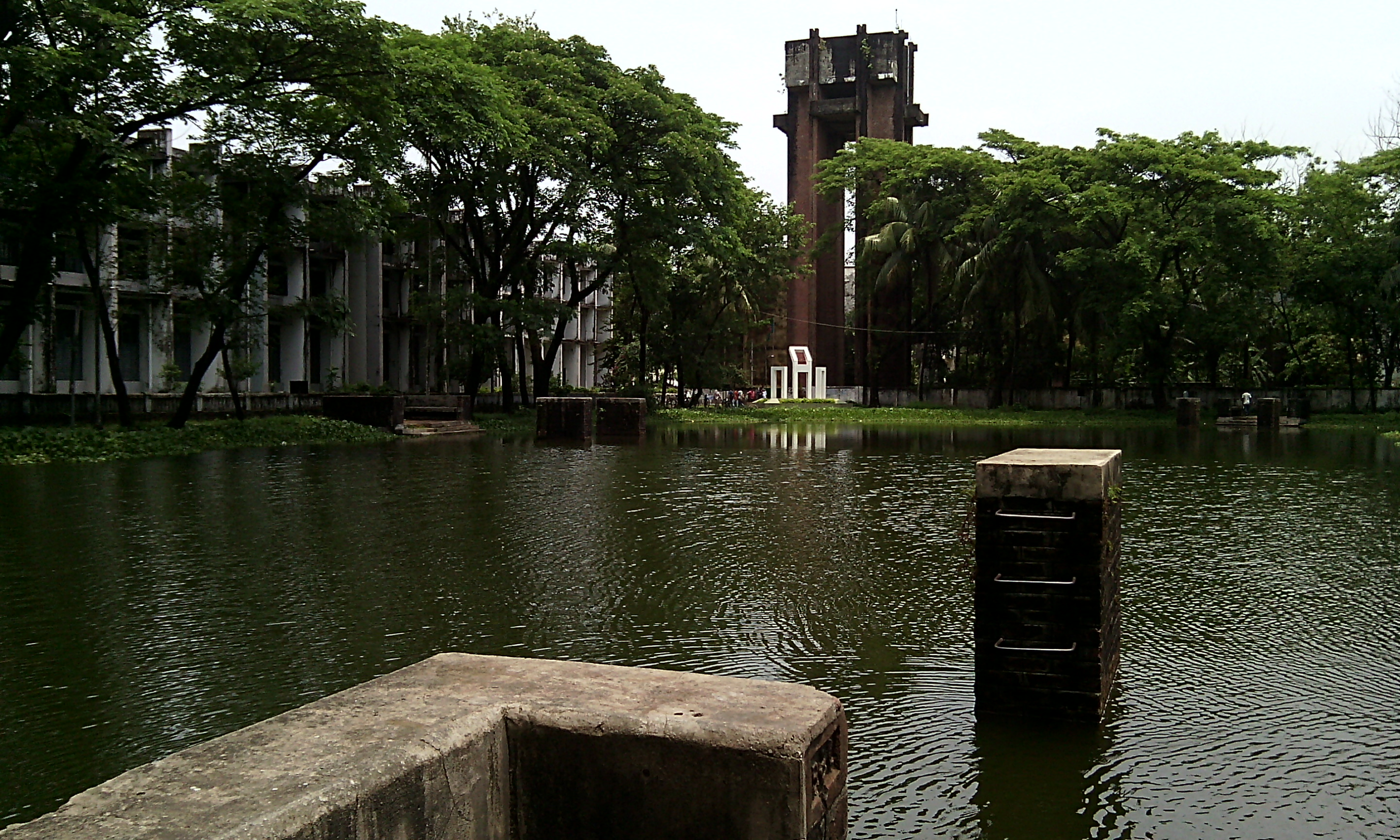 The Pond and the Academic Building of Sylhet Polytechnic Institute